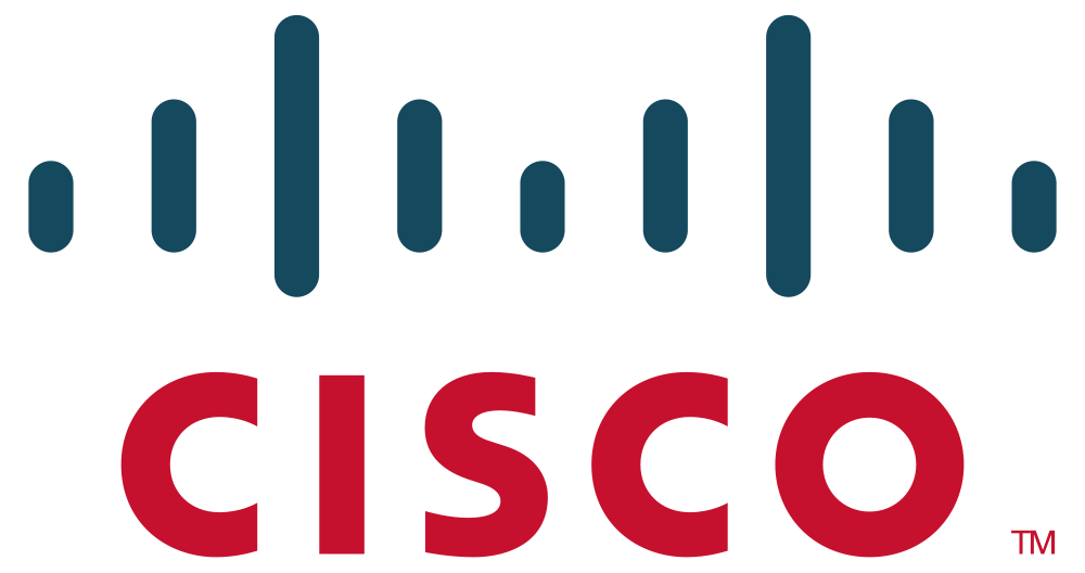 for cisco logo 1000px